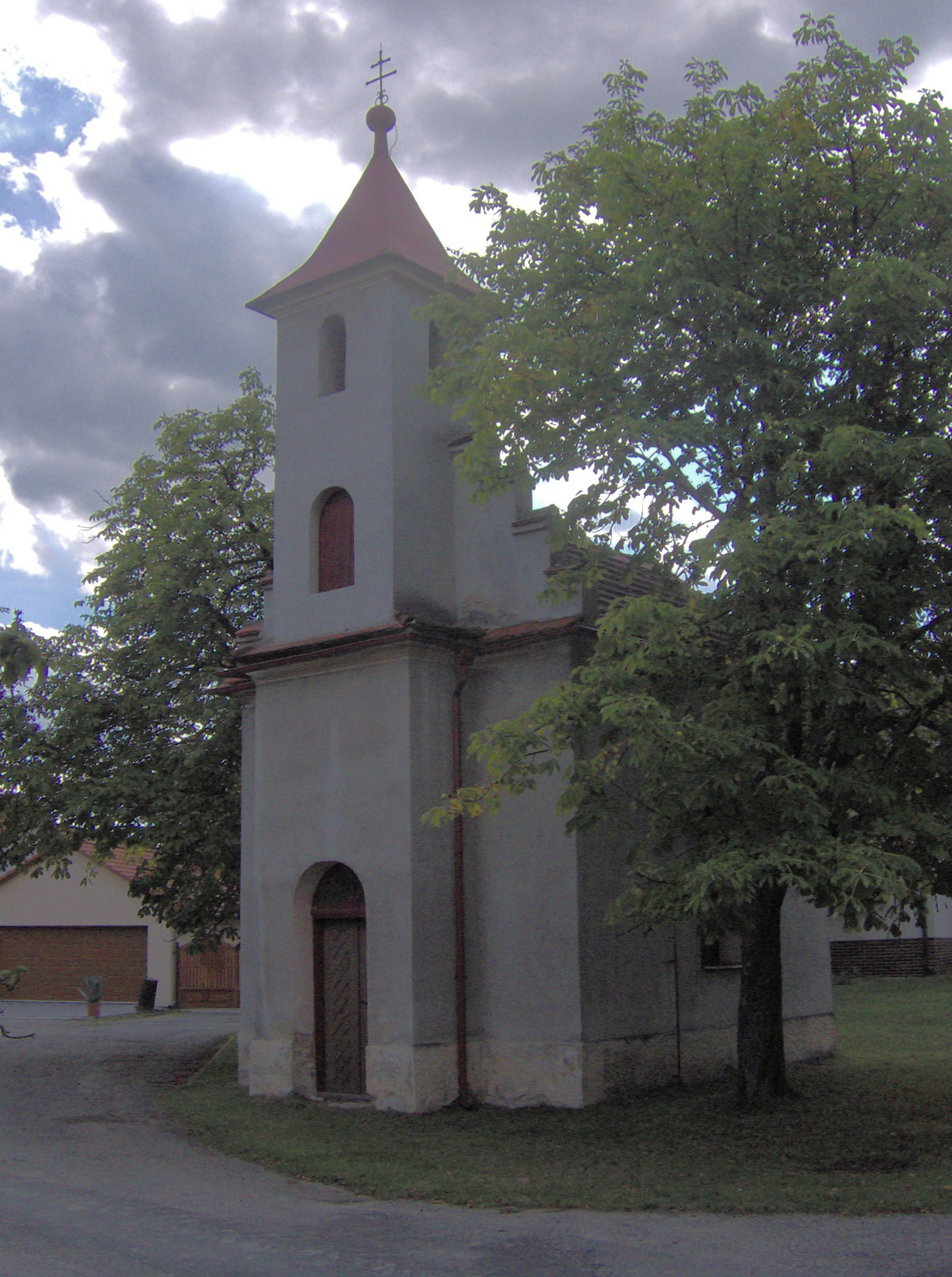 Chapel in Lhota pod Horami, part of village Temelín. Česky: Kaple v Lhotě pod Horami, části obce Temelín.